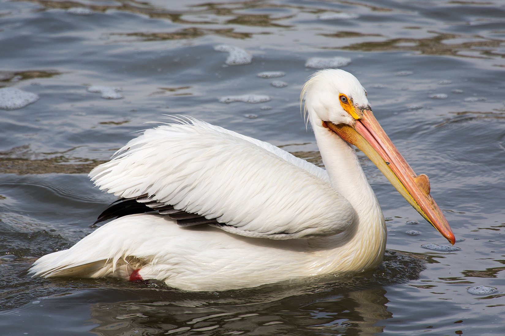 Самец в брачном наряде